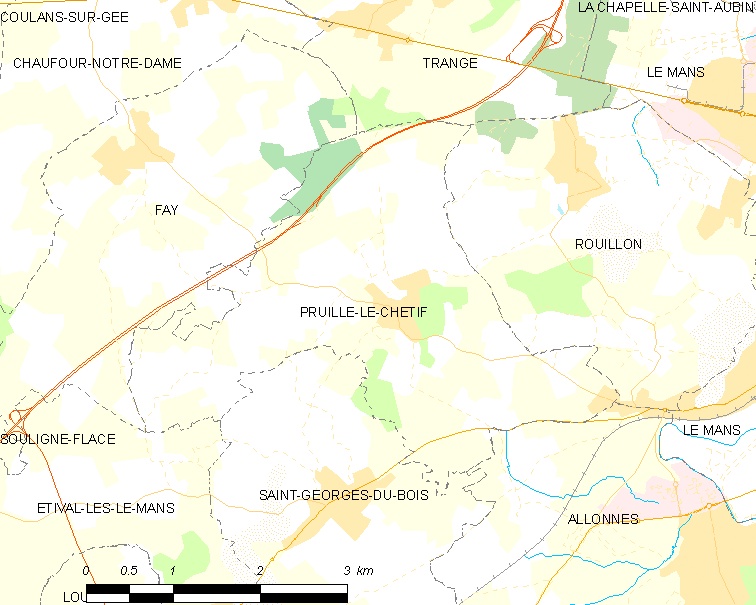 Map of French municipality